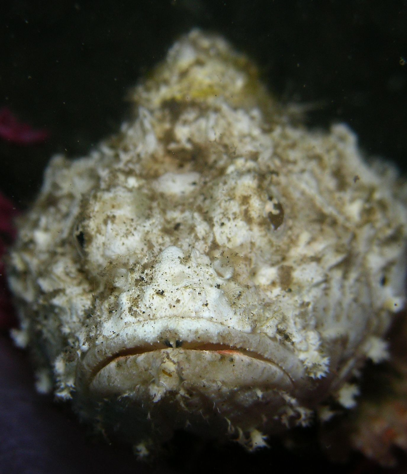 False Stonefish (Scorpaenopsis diabolus)